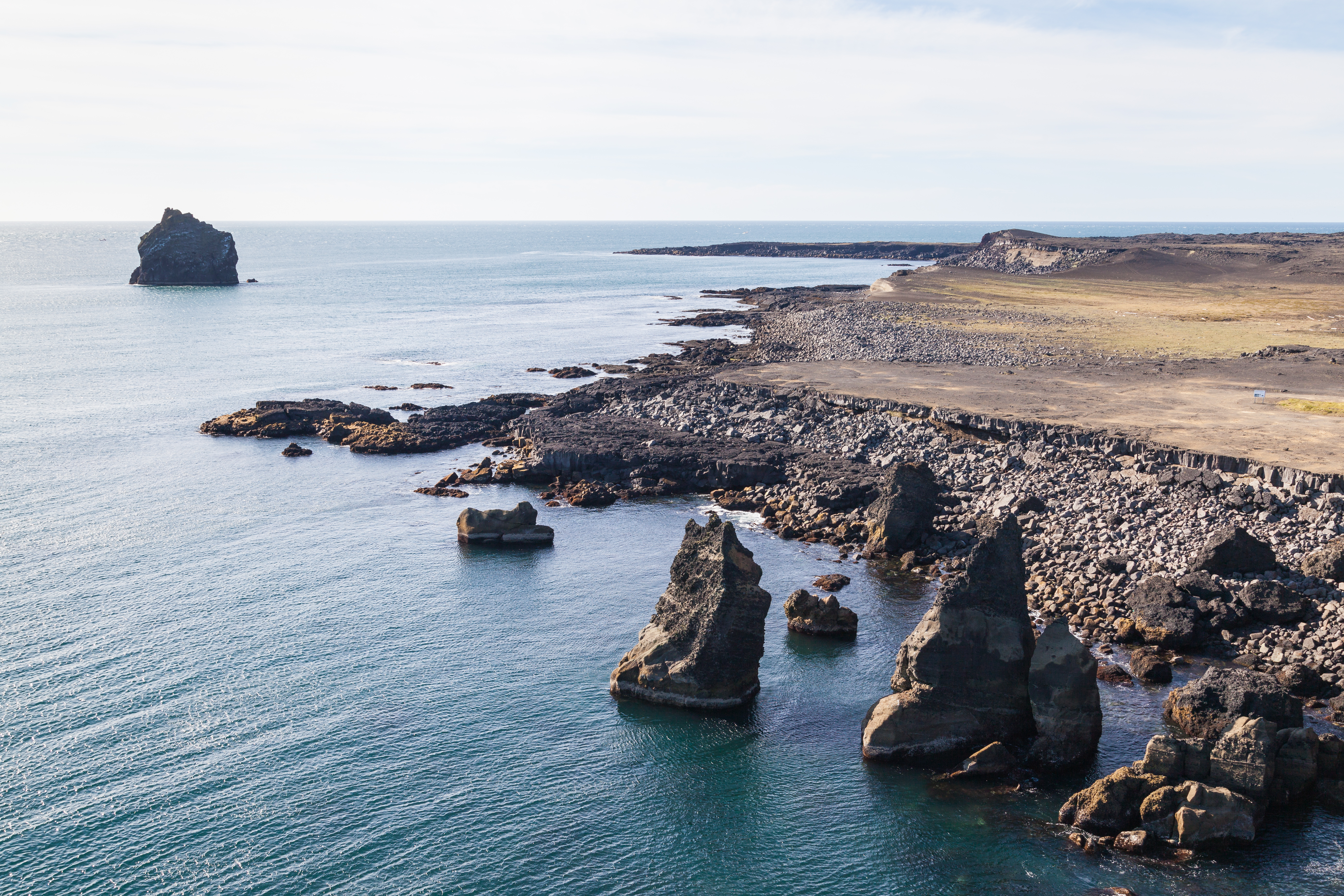 Valahnukur, Suðurnes, Iceland